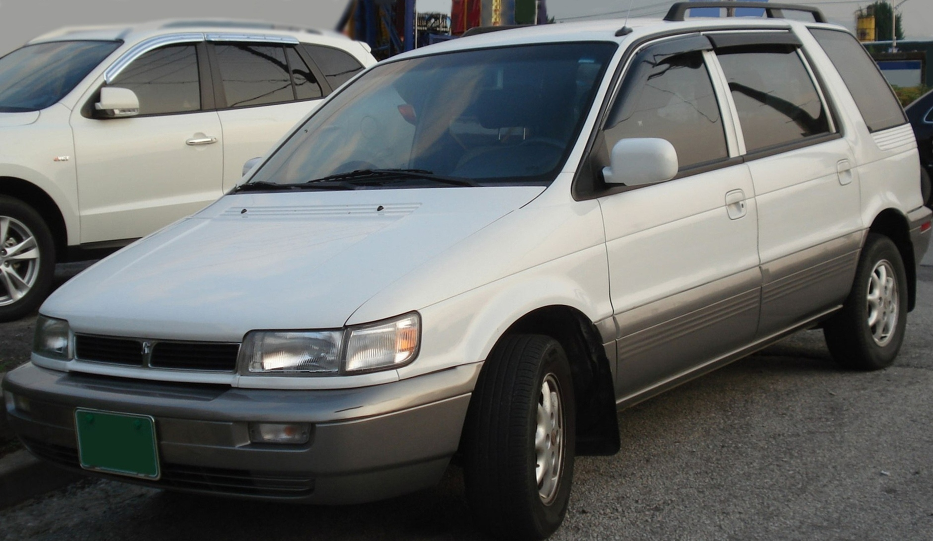 Hyundai Santamo